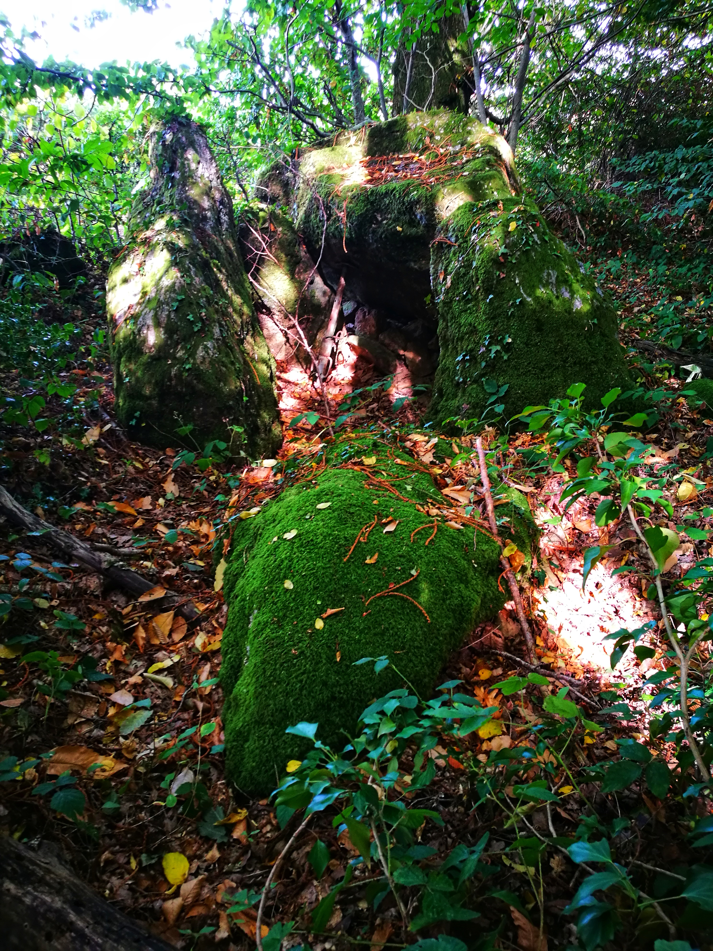 Dolmen of the Pontets, Dolmen of Le Grand Pontet, or Dolmen of Le Champ Liame. The monument has been built during the Chalcolithic period and damaged during the 20th century. Aigurande, Indre, Centre-Val-de-Loire, France, August 2018.